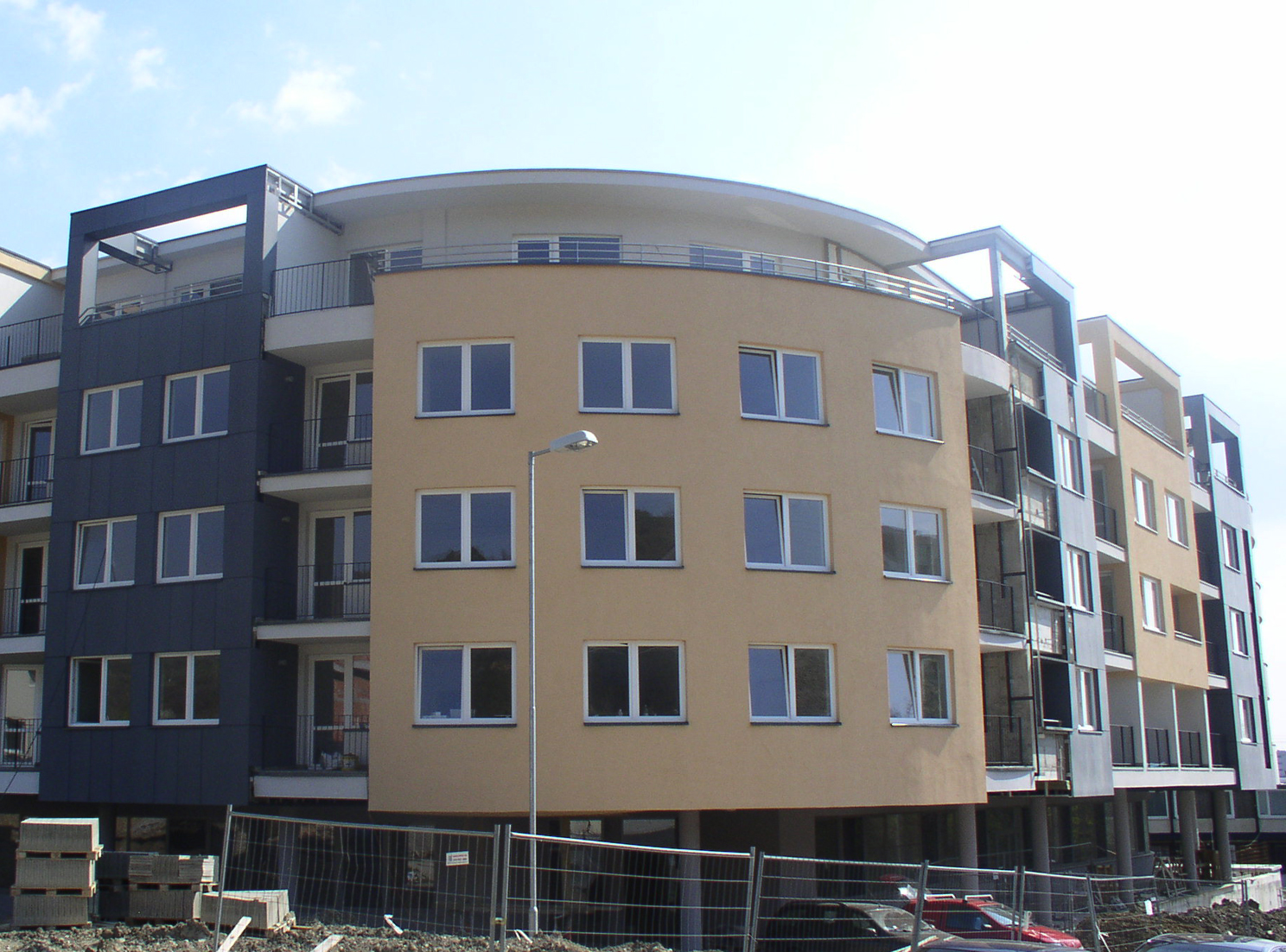 The polyfunctional house, Ahoj, Bratislava